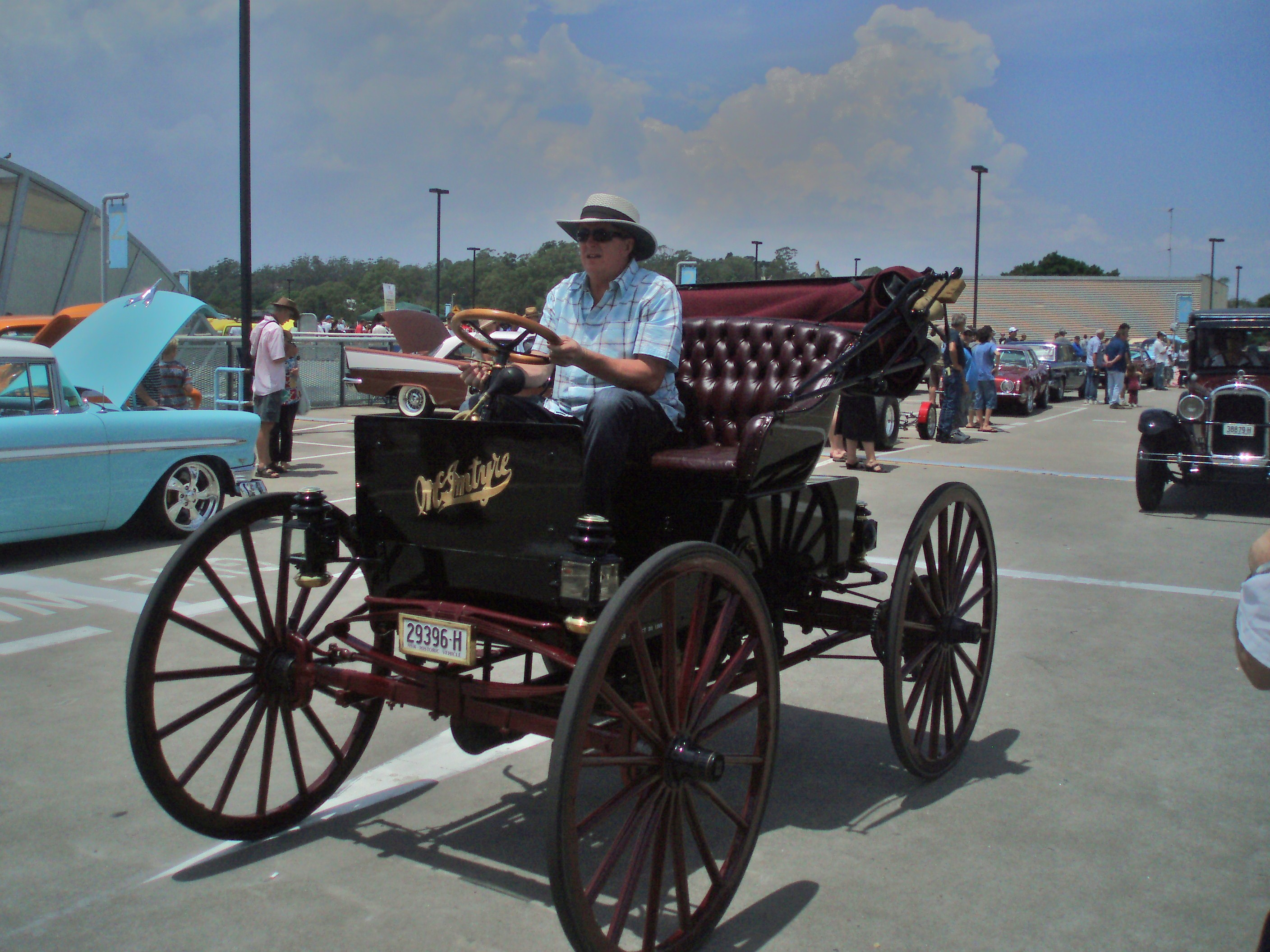 1908 McIntyre Model HH 12hp high wheel runabout. Taken at the 2010 New South Wales All American Day, held at Castle Towers Shopping Centre, Castle Hill, Sydney.